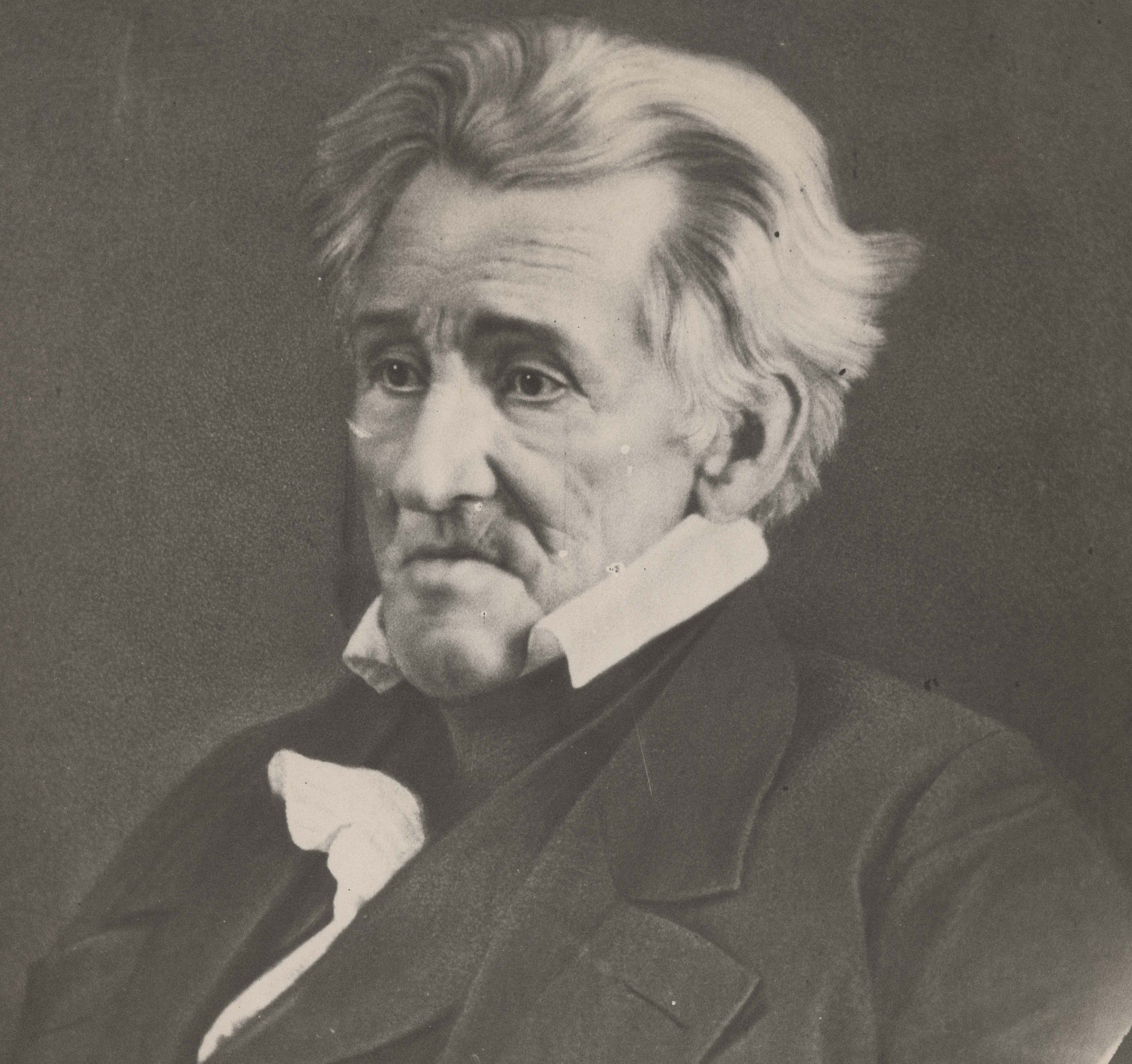 Daguerrotype of Andrew Jackson.